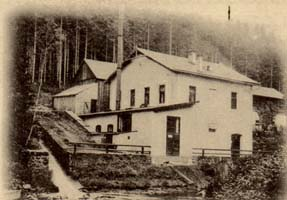 Power station near Zwettl, 1900